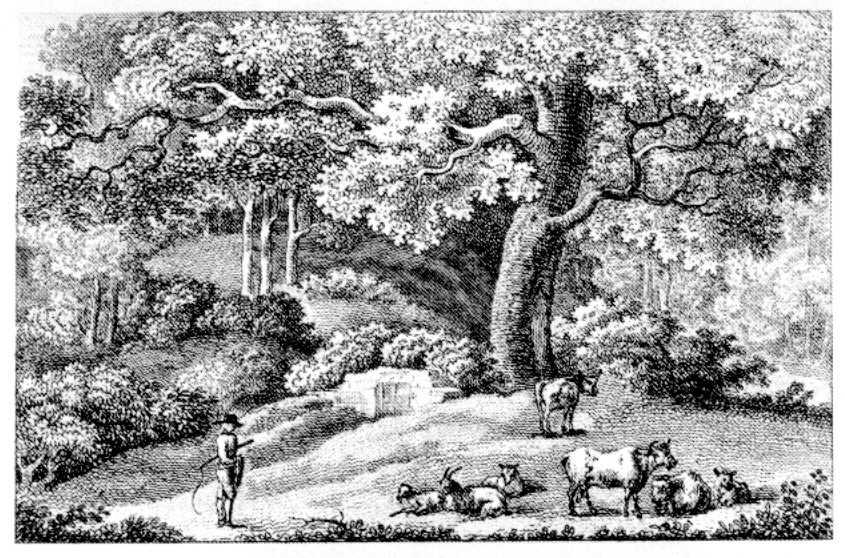 At the spring Elisabethbrunnen. encraving by Johann Adolf Darnstedt.